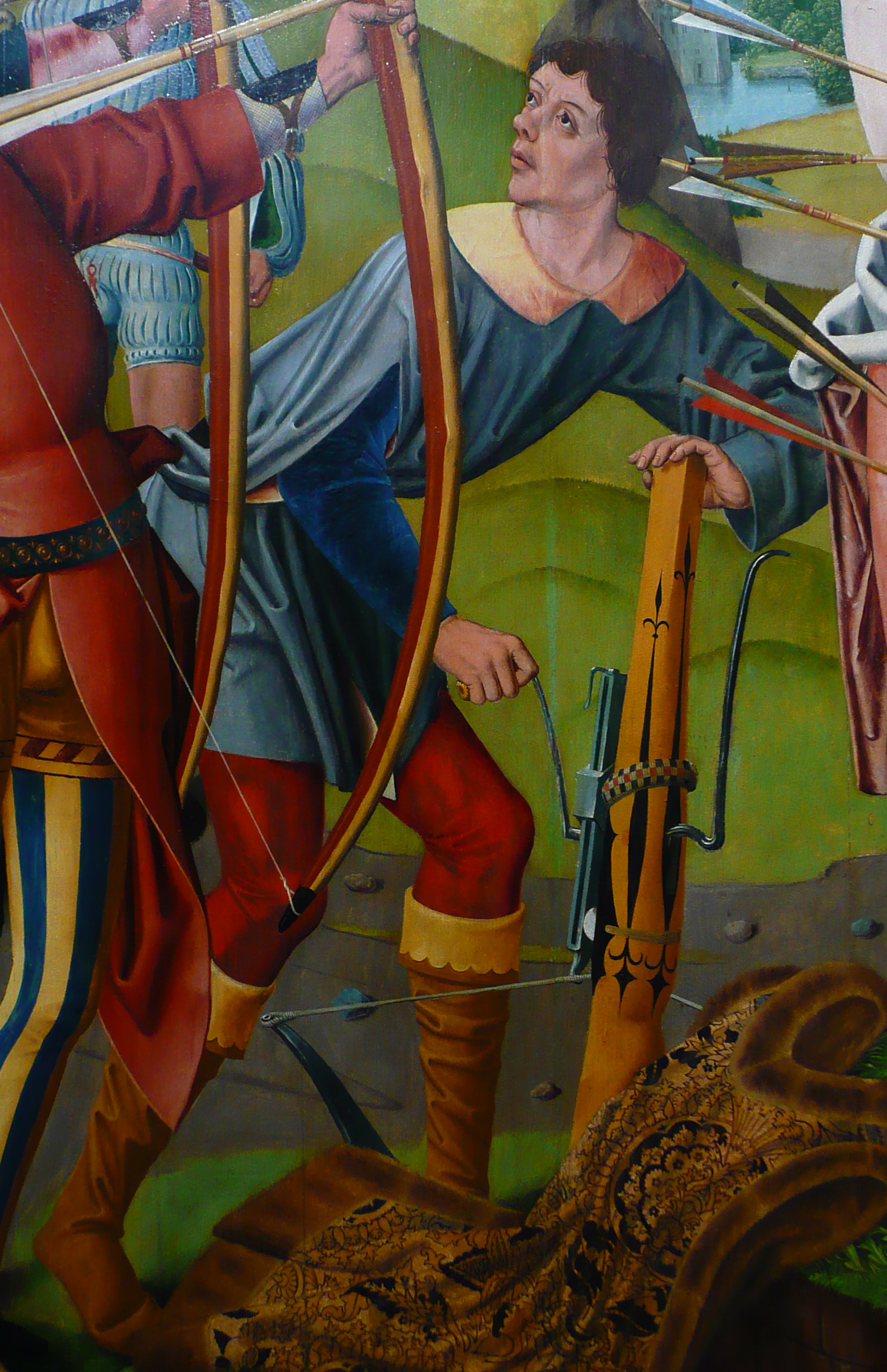 Crossbowman cocking his weapon by means of a mechanical device. Detail of an altarpiece of St Sebastian. Painted in Cologne, Germany, around 1493-1494. Current location: Wallraf-Richartz-Museum, Cologne